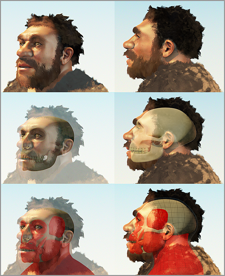 Forensic reconstruction of an Homo neanderthalensis